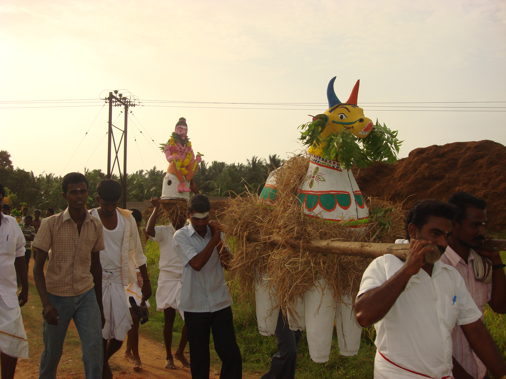 முடச்சிக்காடு அய்யனார் கோவில் திருவிழா முடச்சிக்காடு